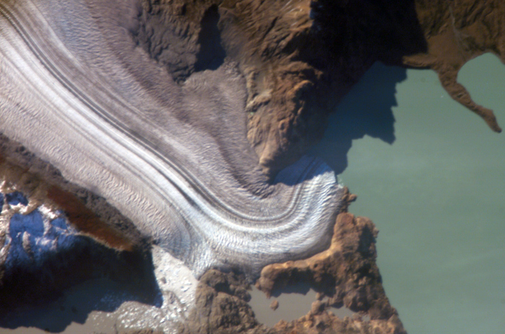 The terminus of the Viedma Glacier, 2 kilometers across where it enters Lake Viedma